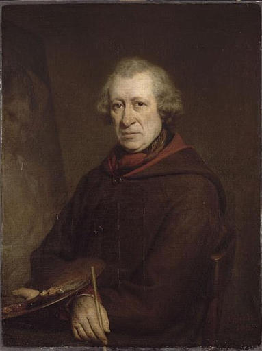 Portrait of François Souchon, former director of the school of painting in Lille